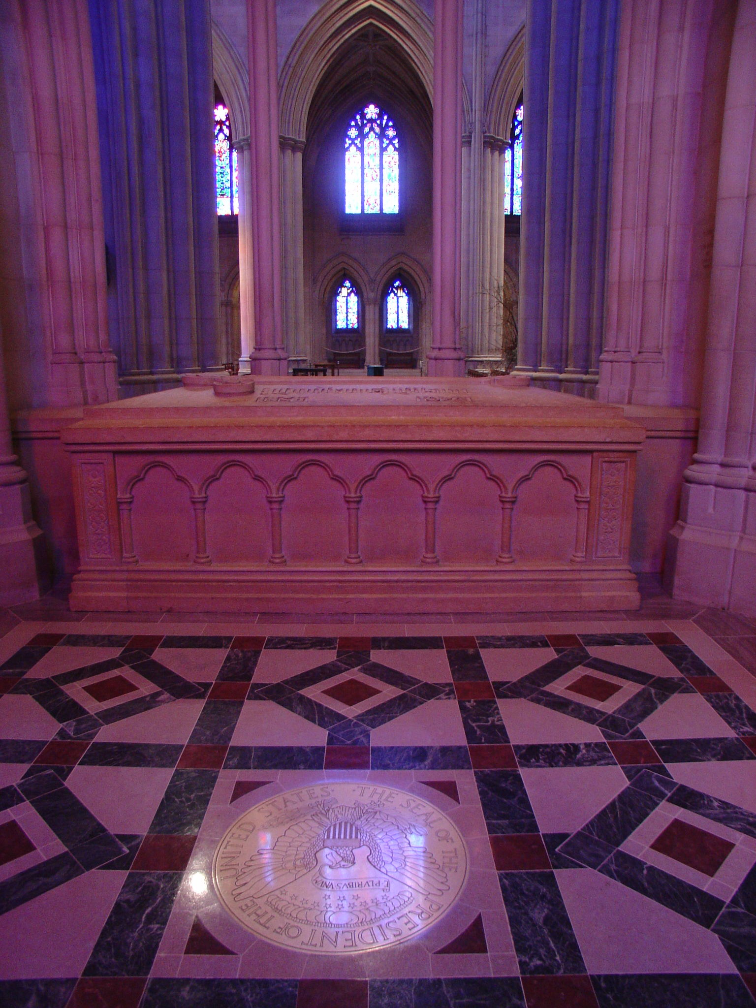 The tomb of Woodrow Wilson at the National Cathedral in Washington, DC. I took this photo in March of 2006. Woodrow Wilson is, at the time of this photo, the only US President buried in the District of Columbia.